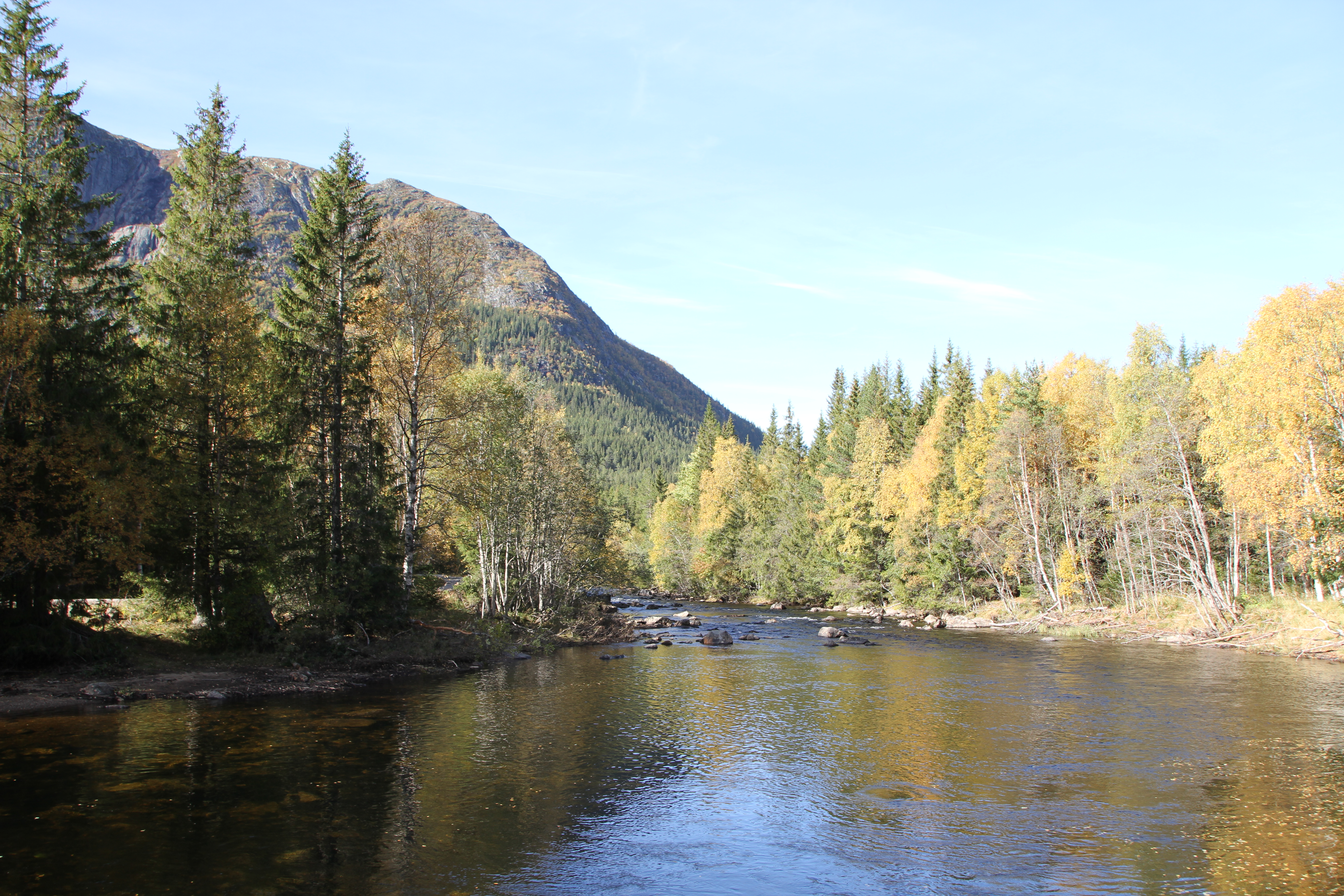 Uvdalselva, a river in Nore og Uvdal, Buskerud county, Norway. It takes its water from the Dagalifjell and Imingfjell massifs.